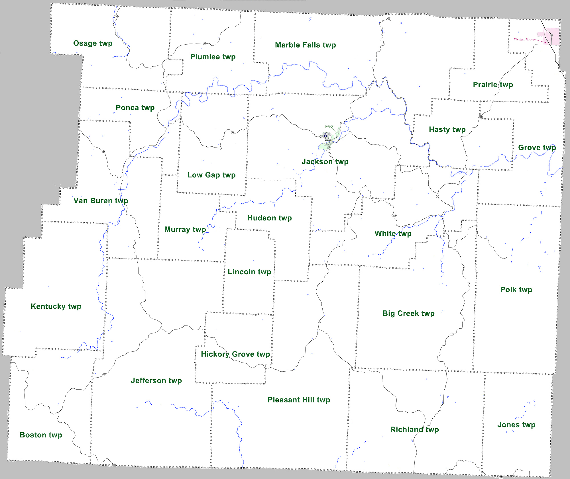 Large version of map showing townships in Newton County, Arkansas. Modified from US census map (for 2010 census) for Newton County, Arkansas